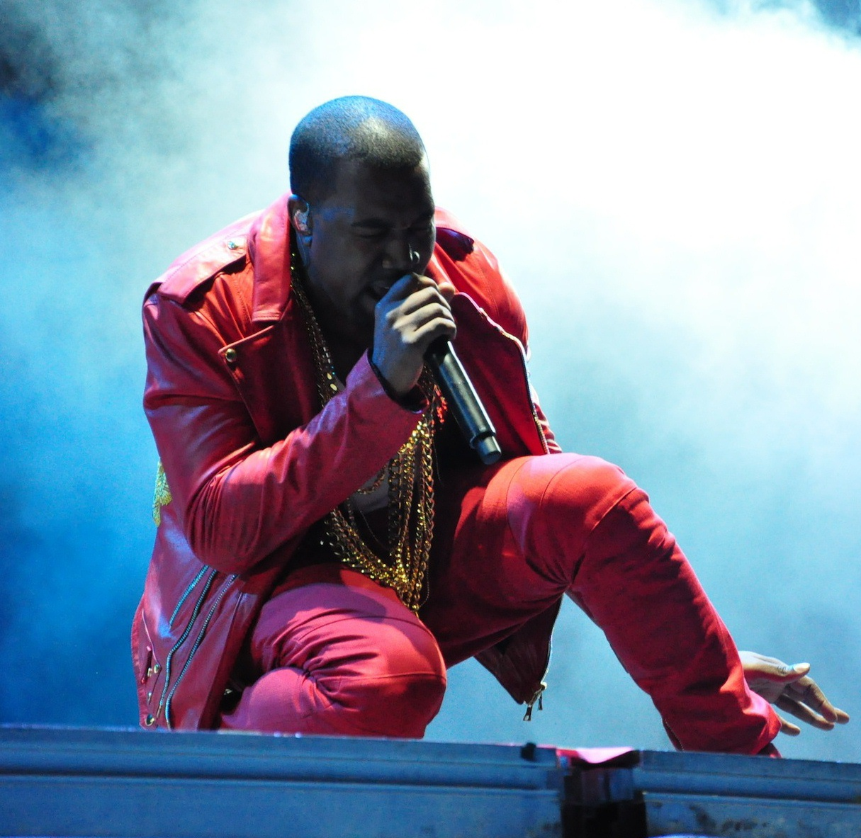 Kanye West performing at Lollapalooza on April 3, 2011 in Santiago, Chile.